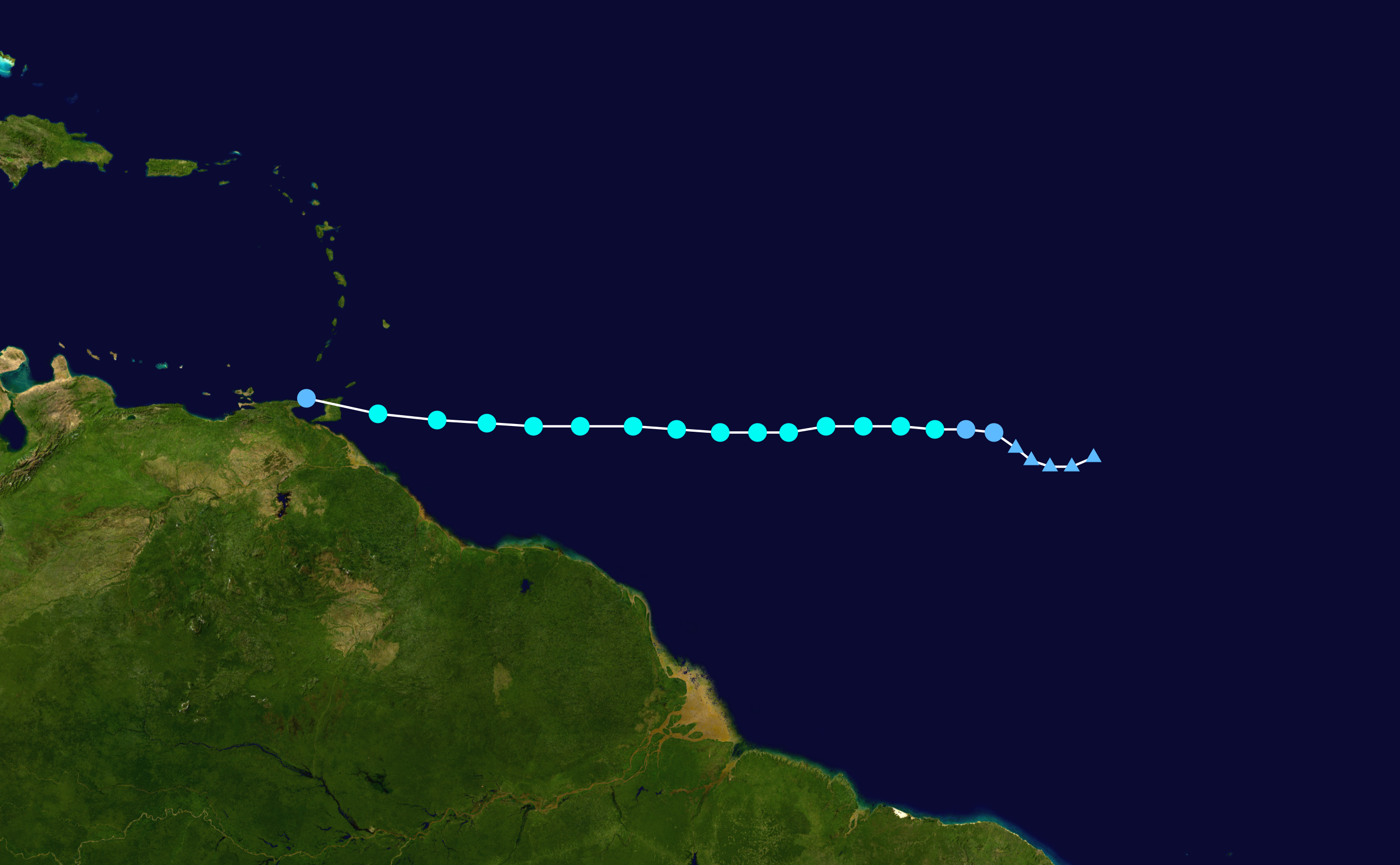 Track map of Tropical Storm Gonzalo of the 2020 Atlantic hurricane season. The points show the location of the storm at 6-hour intervals. The colour represents the storm's maximum sustained wind speeds as classified in the Saffir–Simpson scale (see below), and the shape of the data points represent the nature of the storm, according to the legend below. Saffir–Simpson scale Tropical depression≤38 mph≤62 km/h Category 3111–129 mph178–208 km/h Tropical storm39–73 mph63–118 km/h Category 4130–156 mph209–251 km/h Category 174–95 mph119–153 km/h Category 5≥157 mph≥252 km/h Category 296–110 mph154–177 km/h Unknown Storm type Tropical cyclone Subtropical cyclone Extratropical cyclone / Remnant low / Tropical disturbance / Monsoon depression